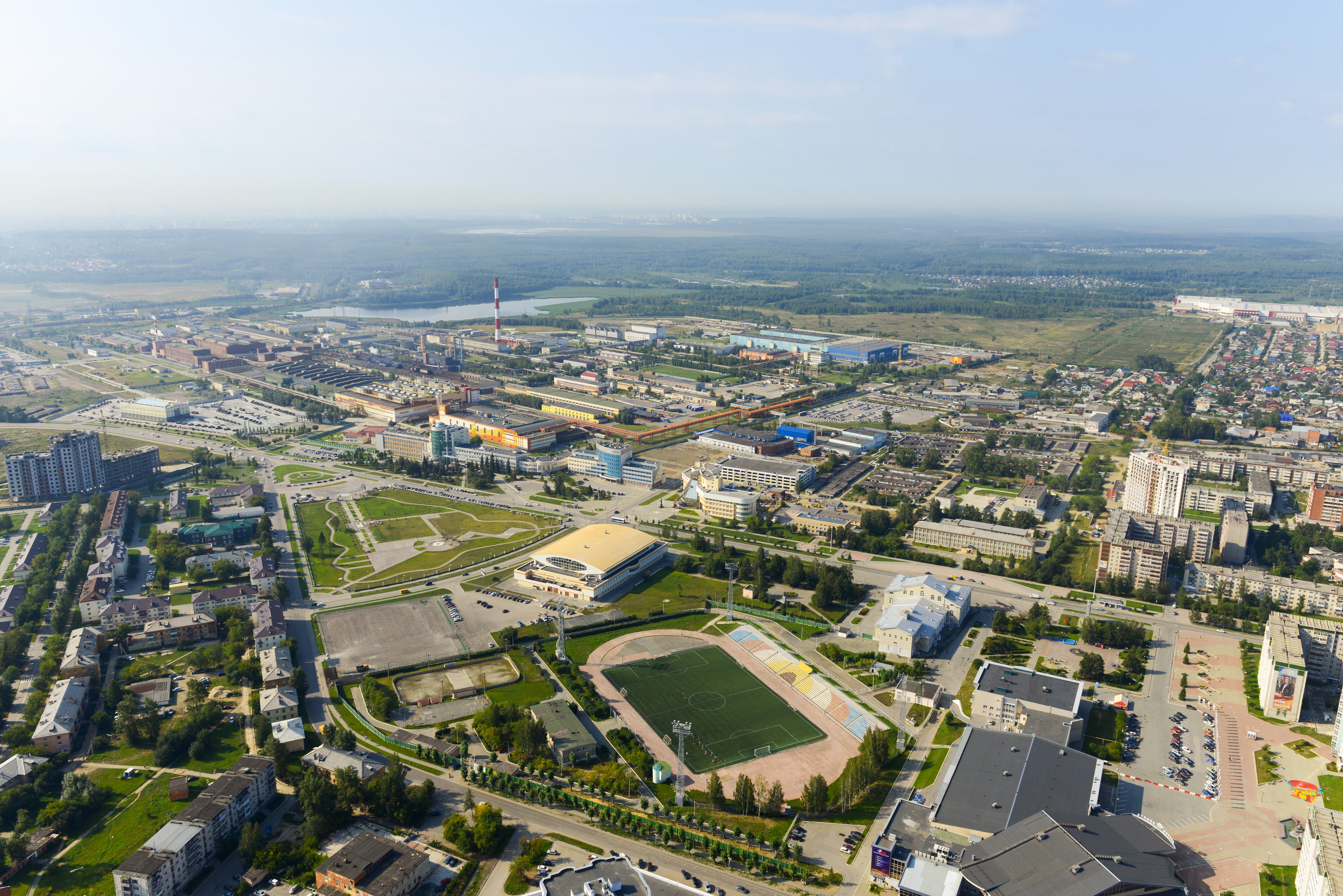 Panorama city, Verkhnyaya Pyshma, Sverdlovsk Oblast